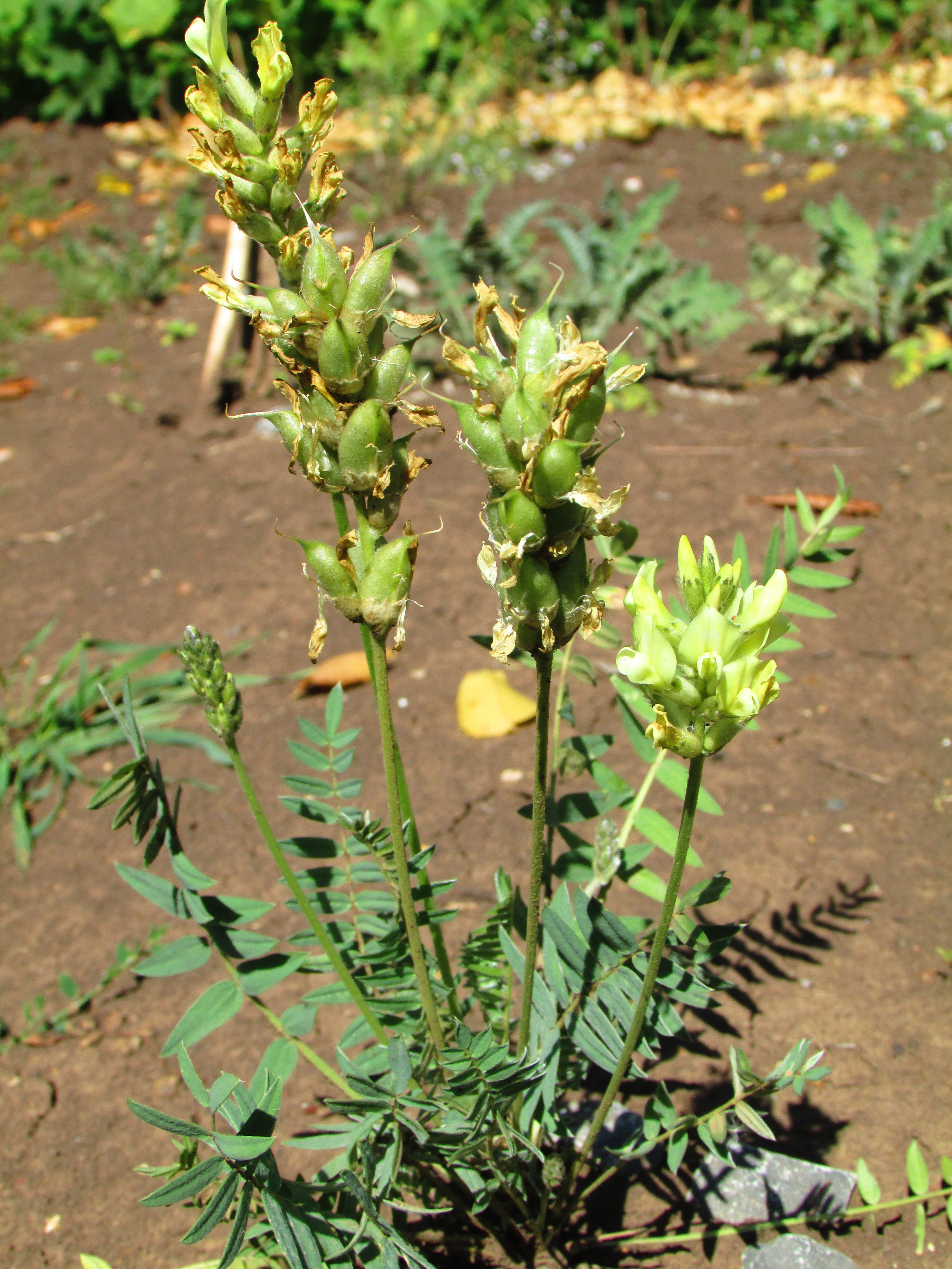 Three-year generative plant of Oxytropis hippolyti in a phenological phase of blossoming and fructification in introduction nursery.